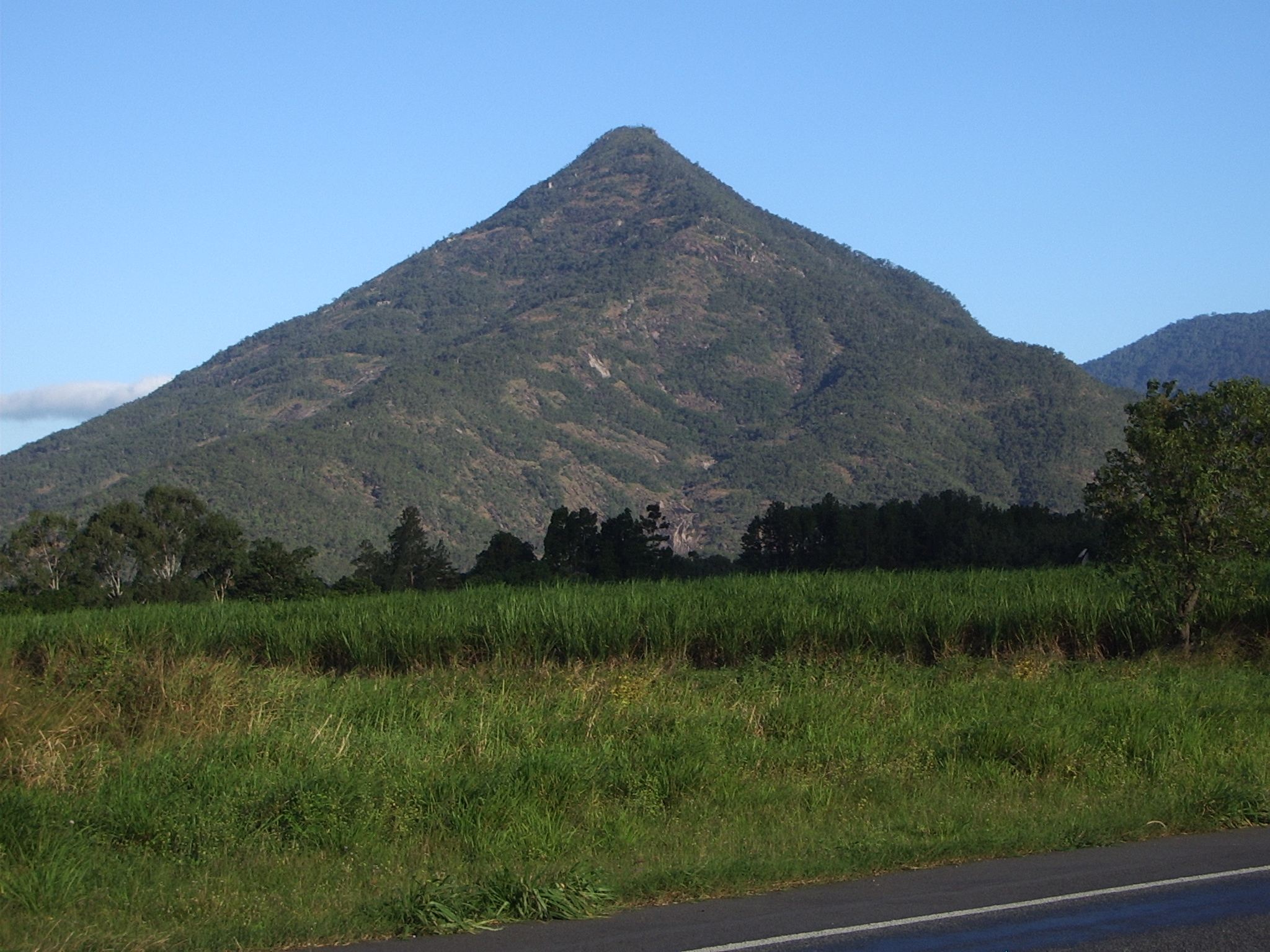 Photo taken July 2004 by Darren Hughes (myself) I release this photo into the public domain for anyone to use